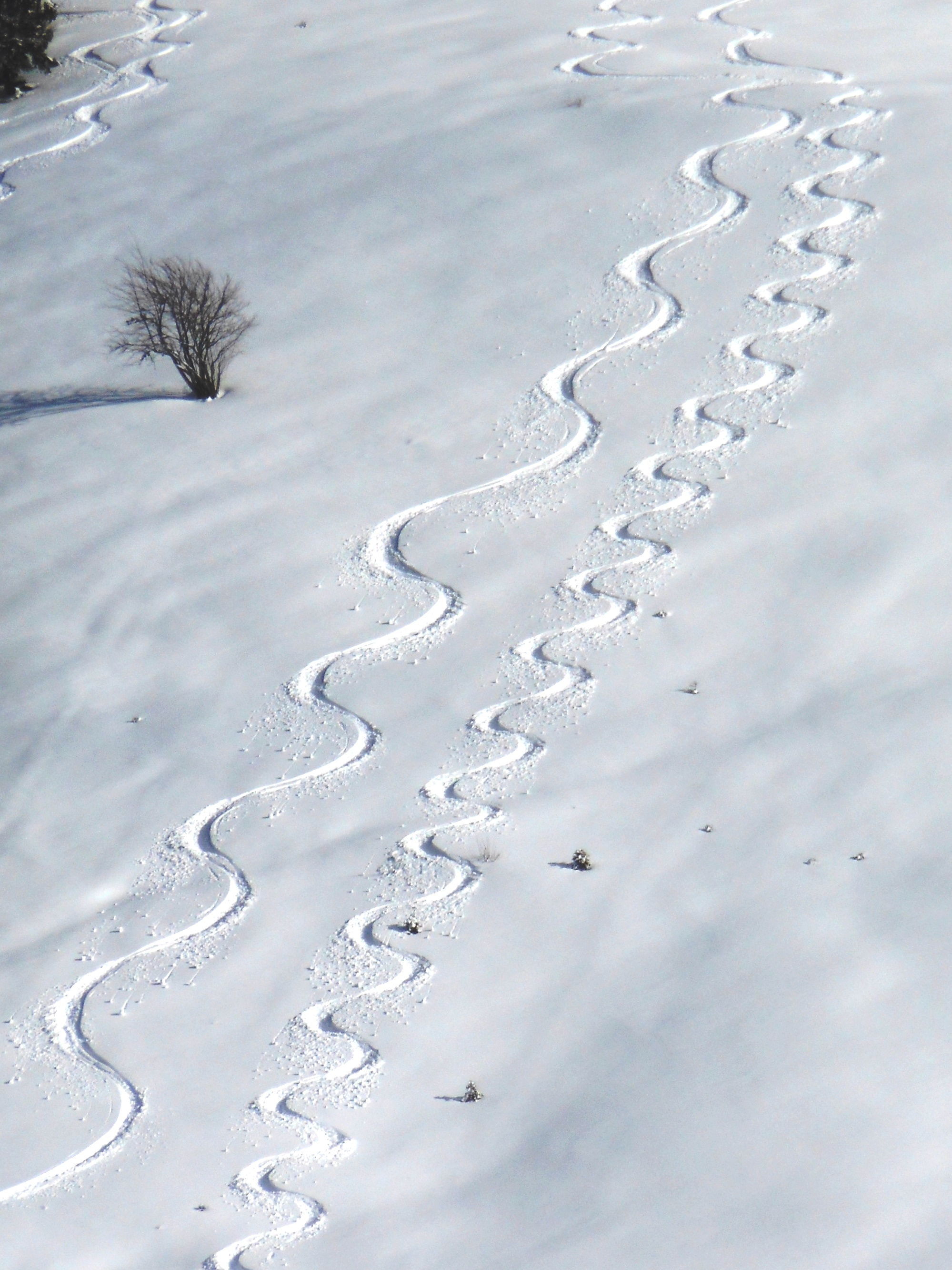 Mountaineering ski curves in the deep snow